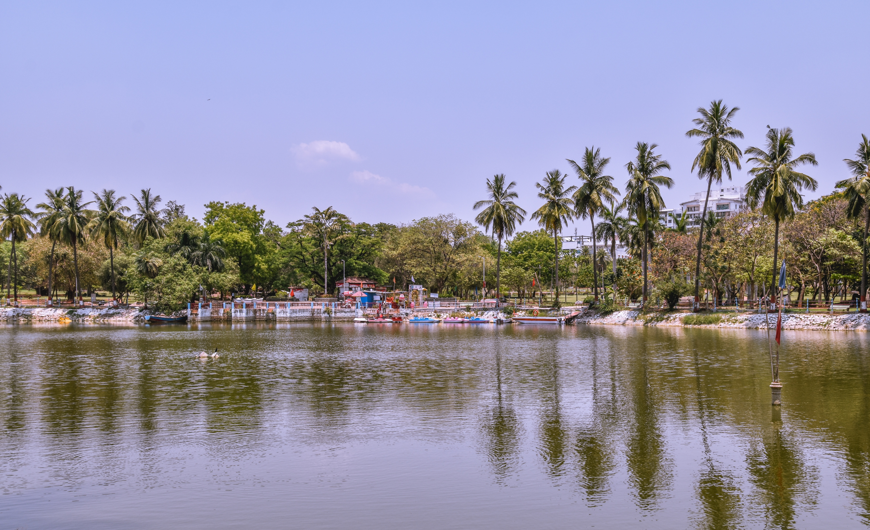 Indira Park in Hyderabad